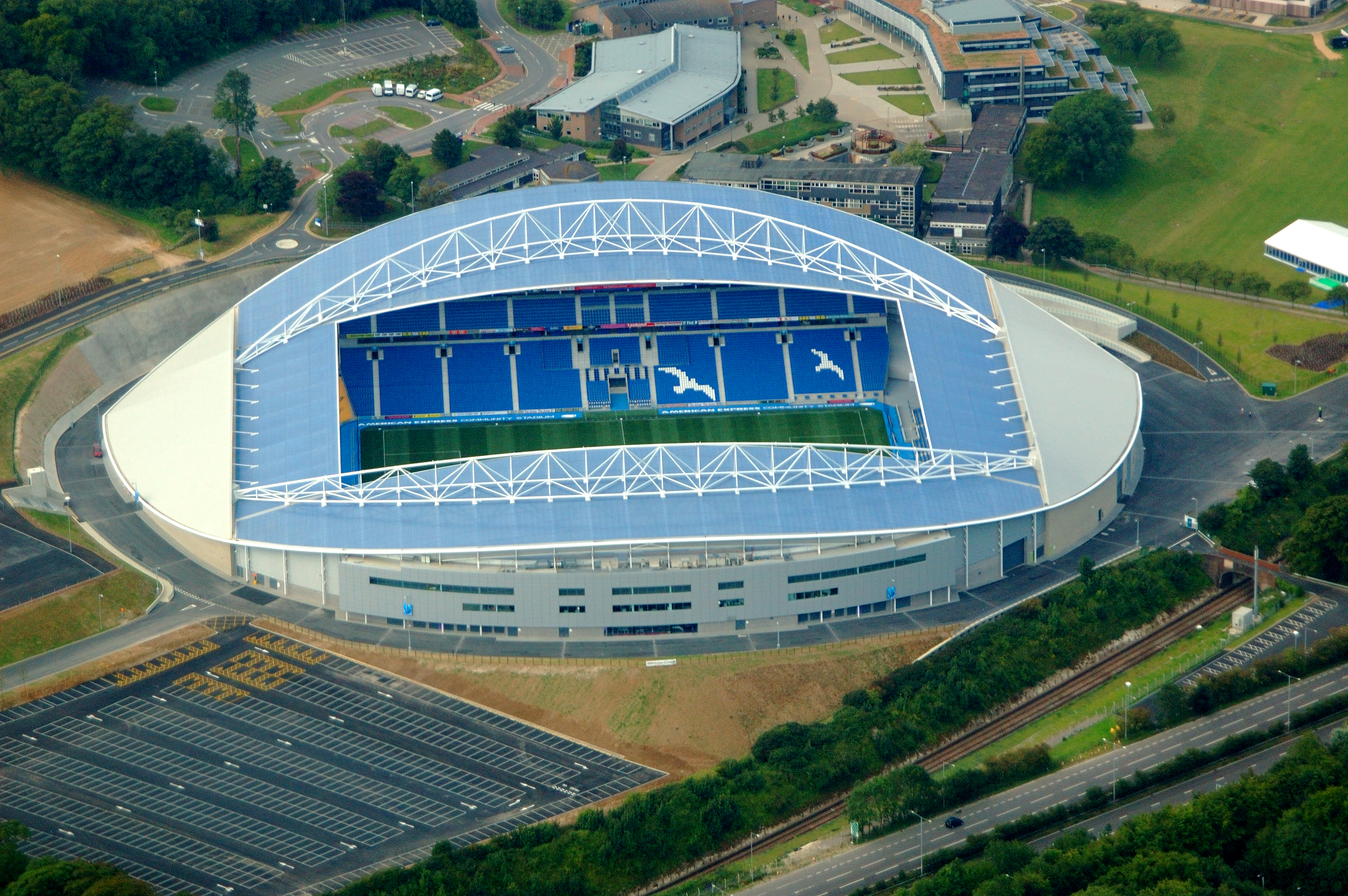 An aerial view of the American Express Community Stadium in Falmer.